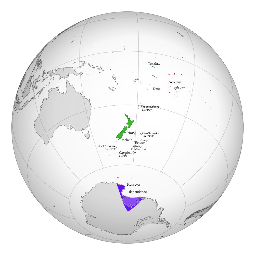 A map of the hemisphere centred on Wellington, New Zealand, using an orthographic projection, created using gringer's Perl script with Natural Earth Data (1:50000 resolution, simplified to 0.25px). New Zealand is highlighted in green.